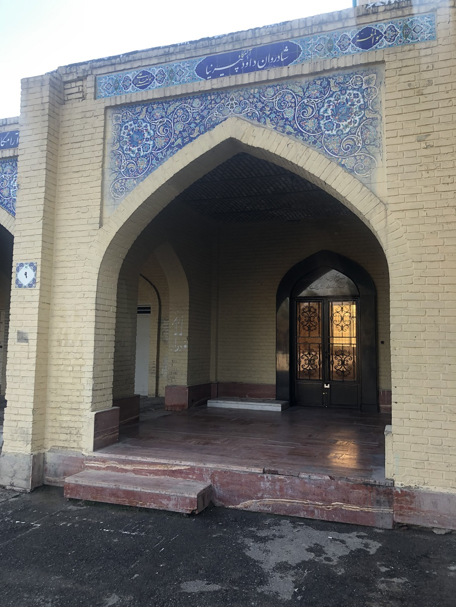 Behesht Zahra